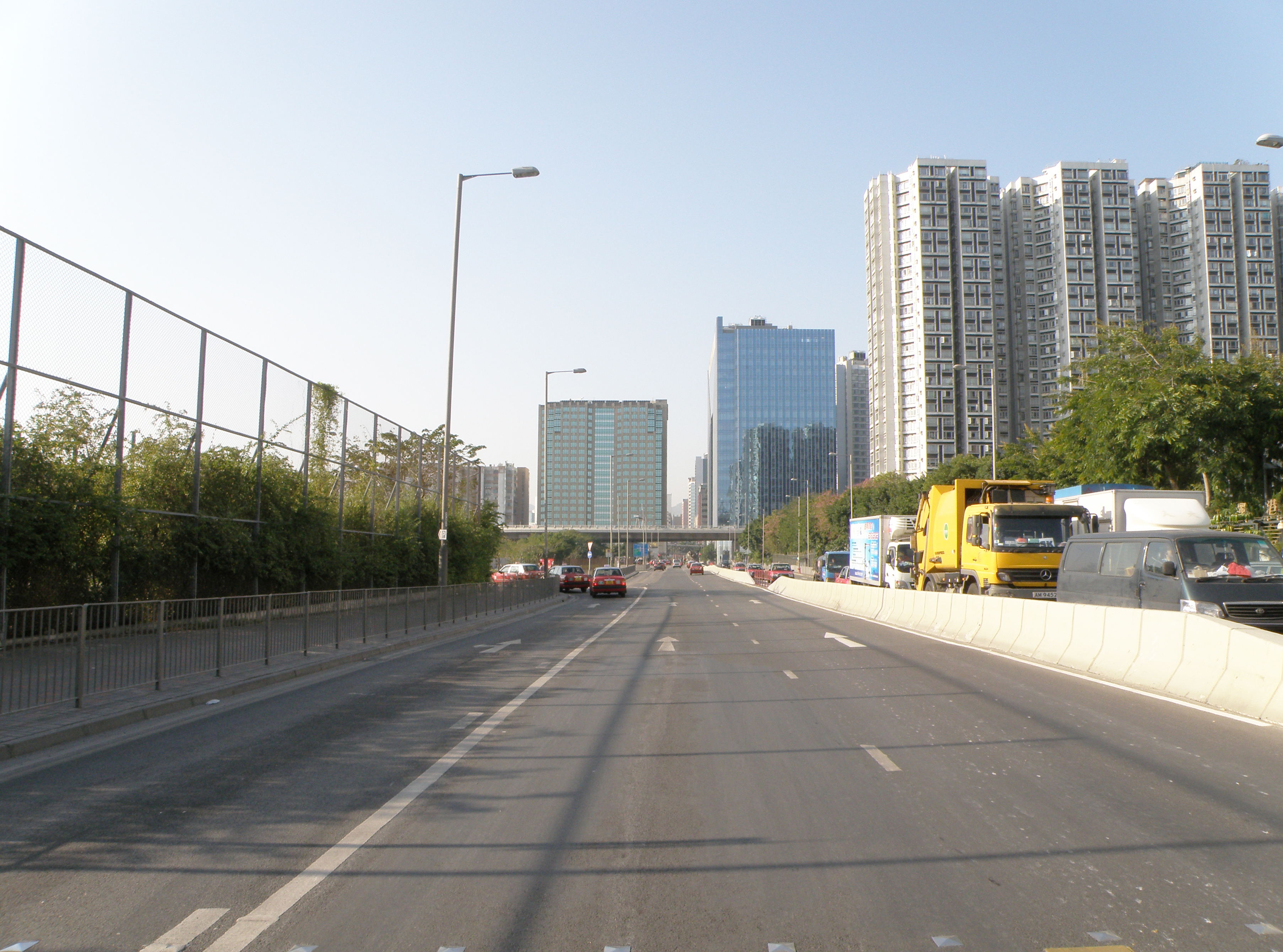 Wai Yip Street in Cha Kwo Ling, Hong Kong.